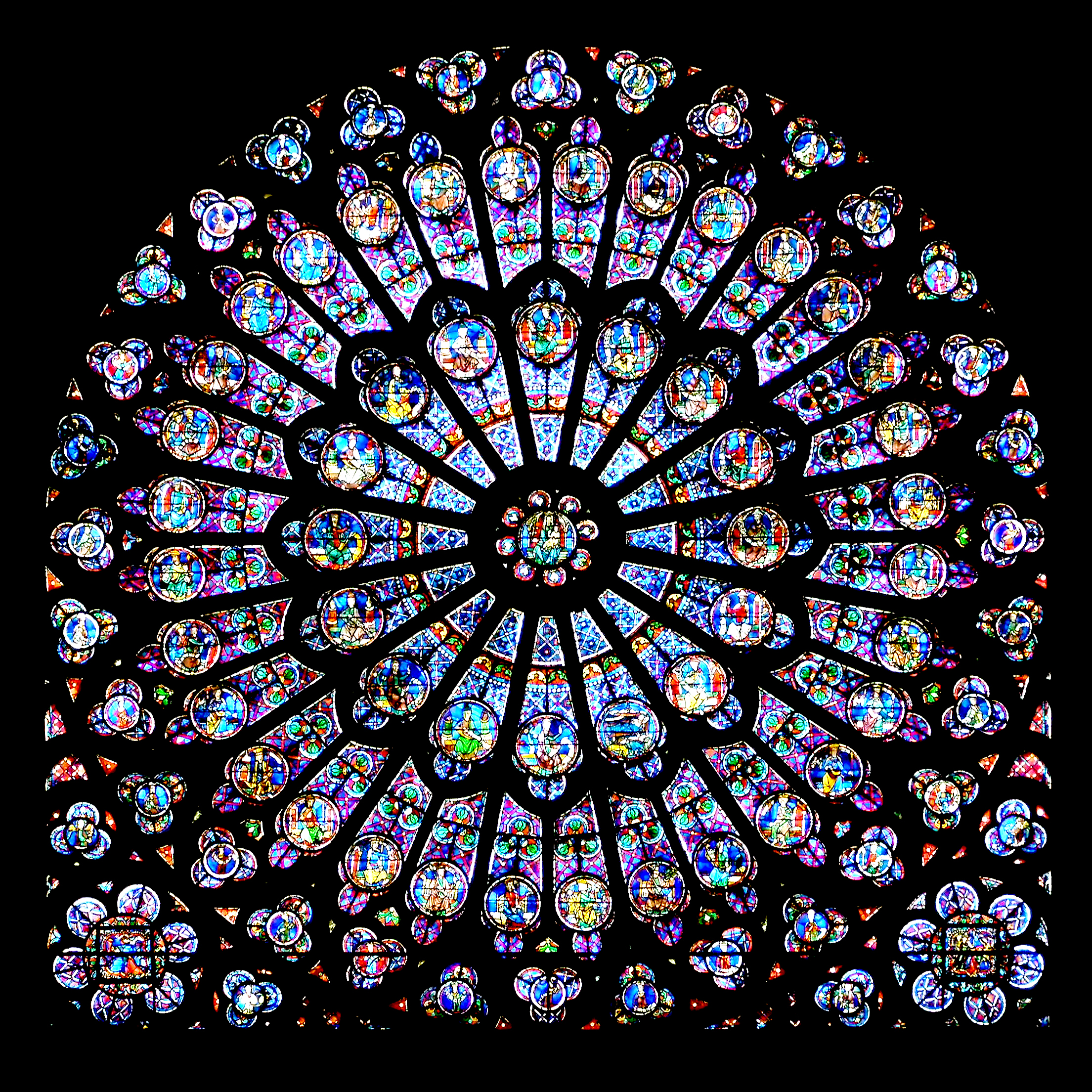 Rayonnat Gothic rose window of north transept, Notre-Dame de Paris (window was created by Jean de Chelles on the 13th century)